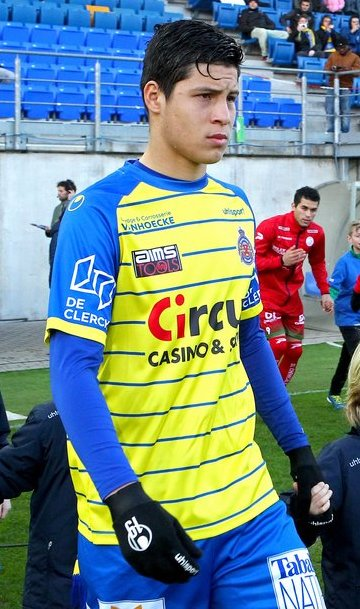 Alexis Gamboa before a match against Zulte Waregem on March 11, 2019.